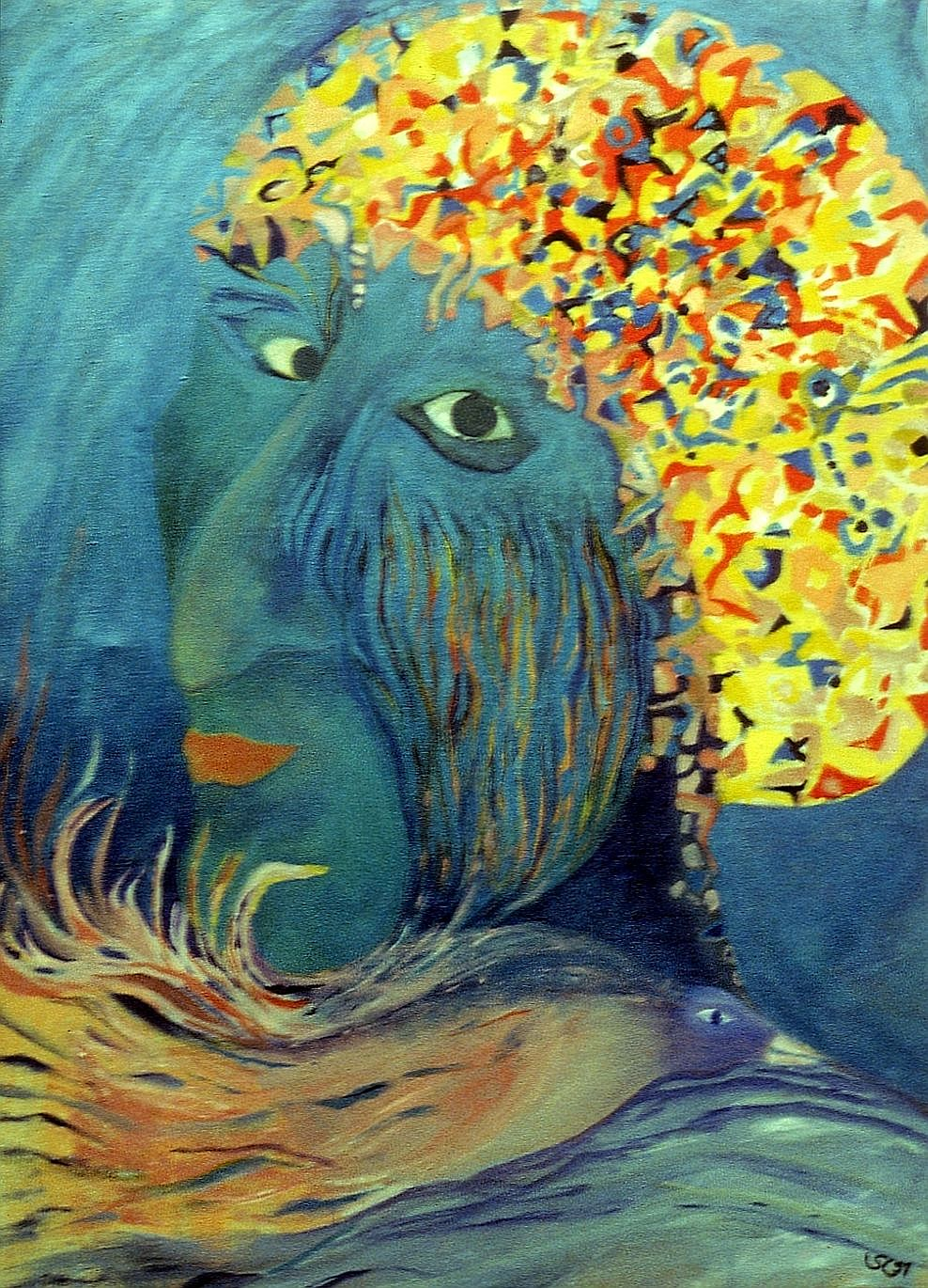 "Flausen im Kopf", Painting by Sigrun Casper, textile paint on fabric, 1991